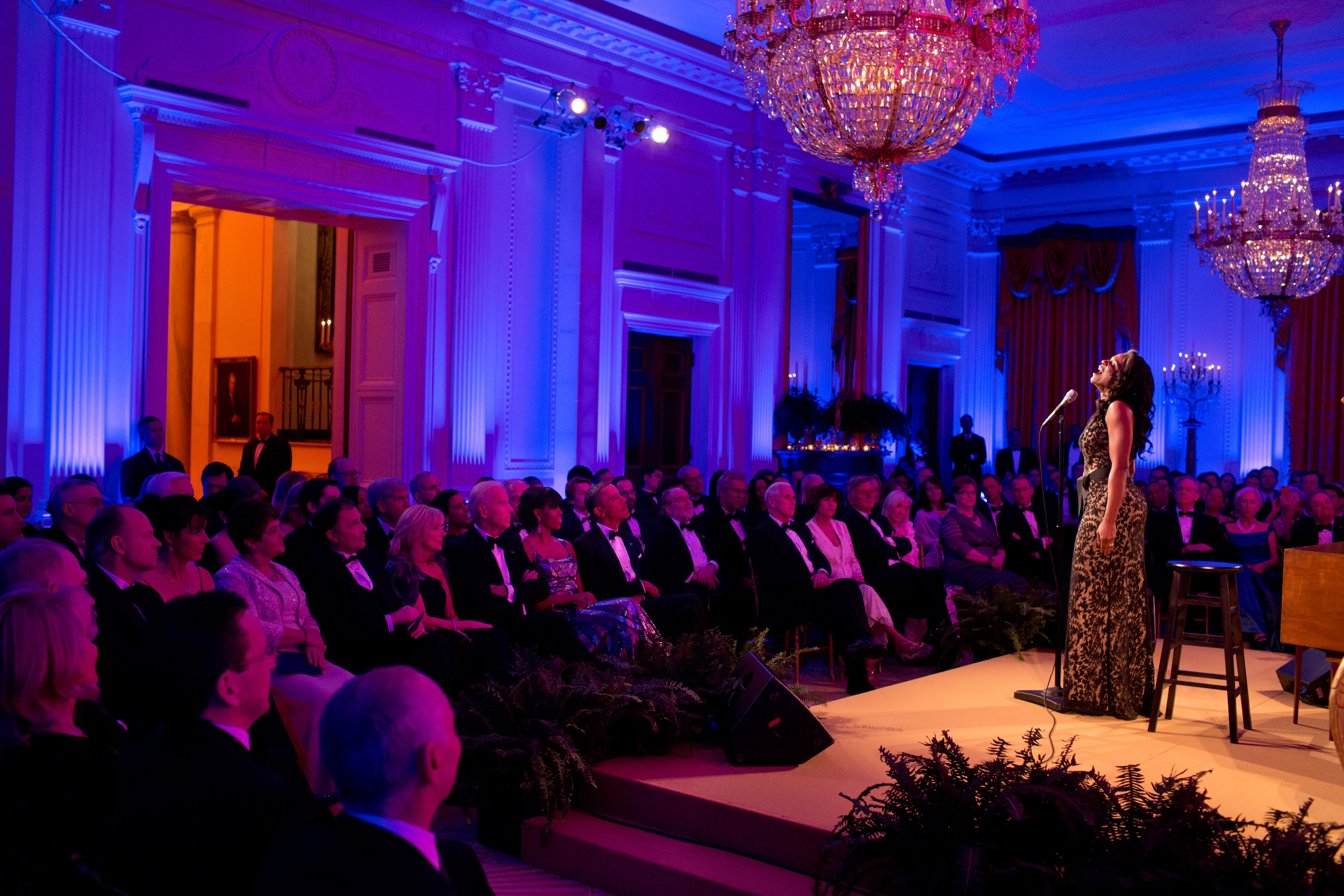 Audra McDonald performs in the East Room of the White House during the National Governors Association Dinner hosted by President Barack Obama and First Lady Michelle Obama, Feb. 24, 2013. (Official White House Photo by Pete Souza)